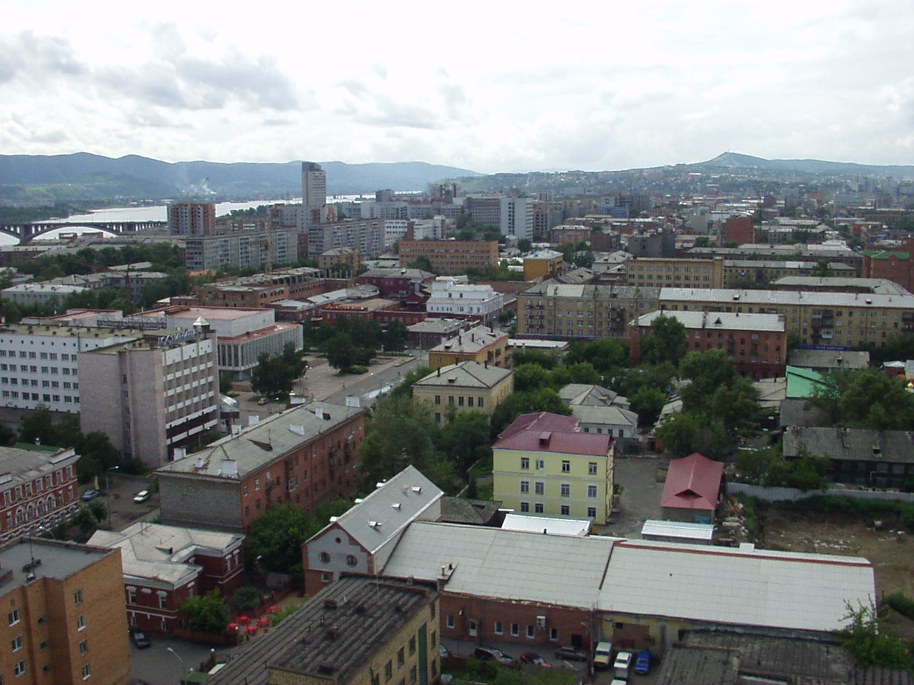 View of central part of Krasnoyarsk city